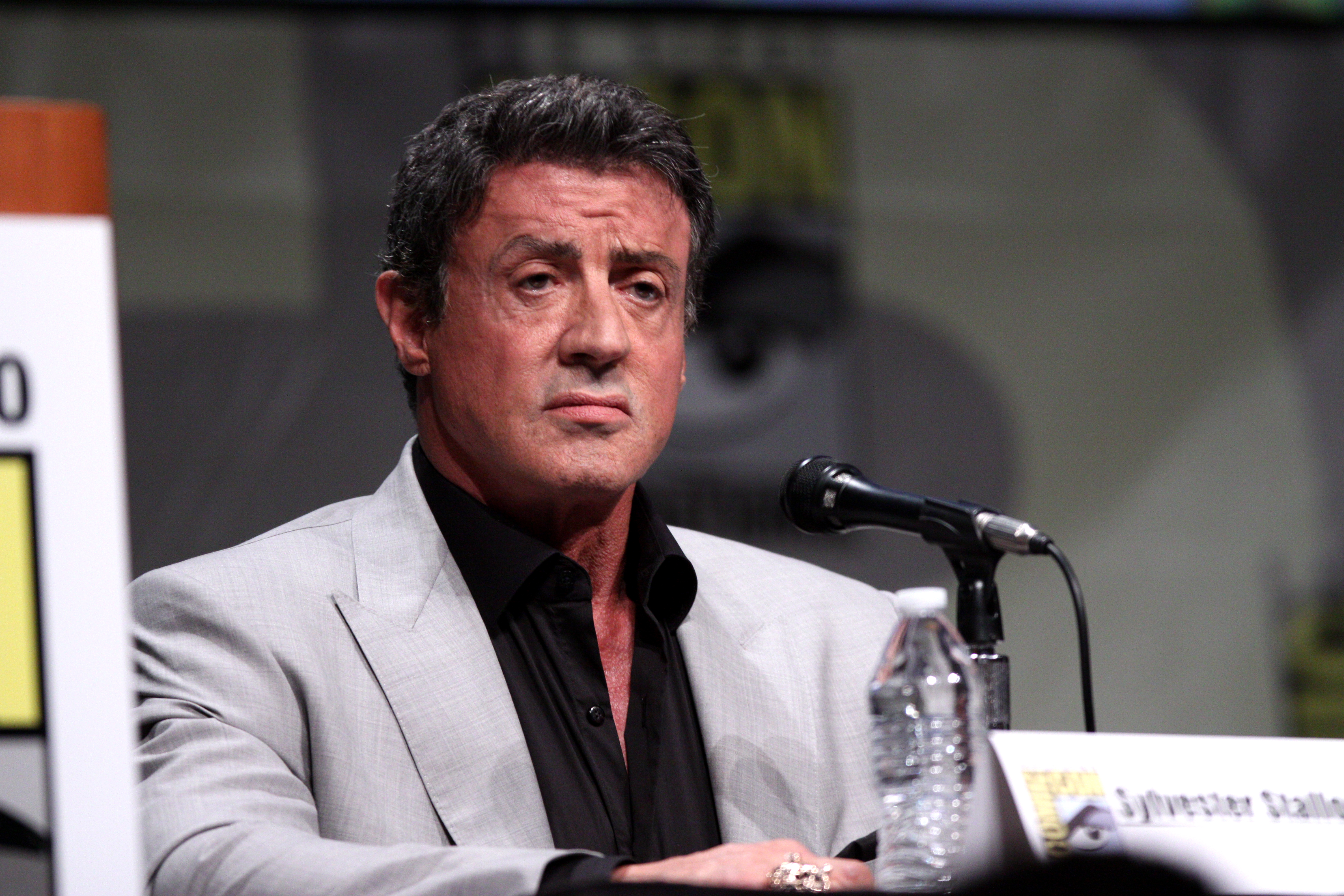 Sylvester Stallone speaking at the 2012 San Diego Comic-Con International in San Diego, California.